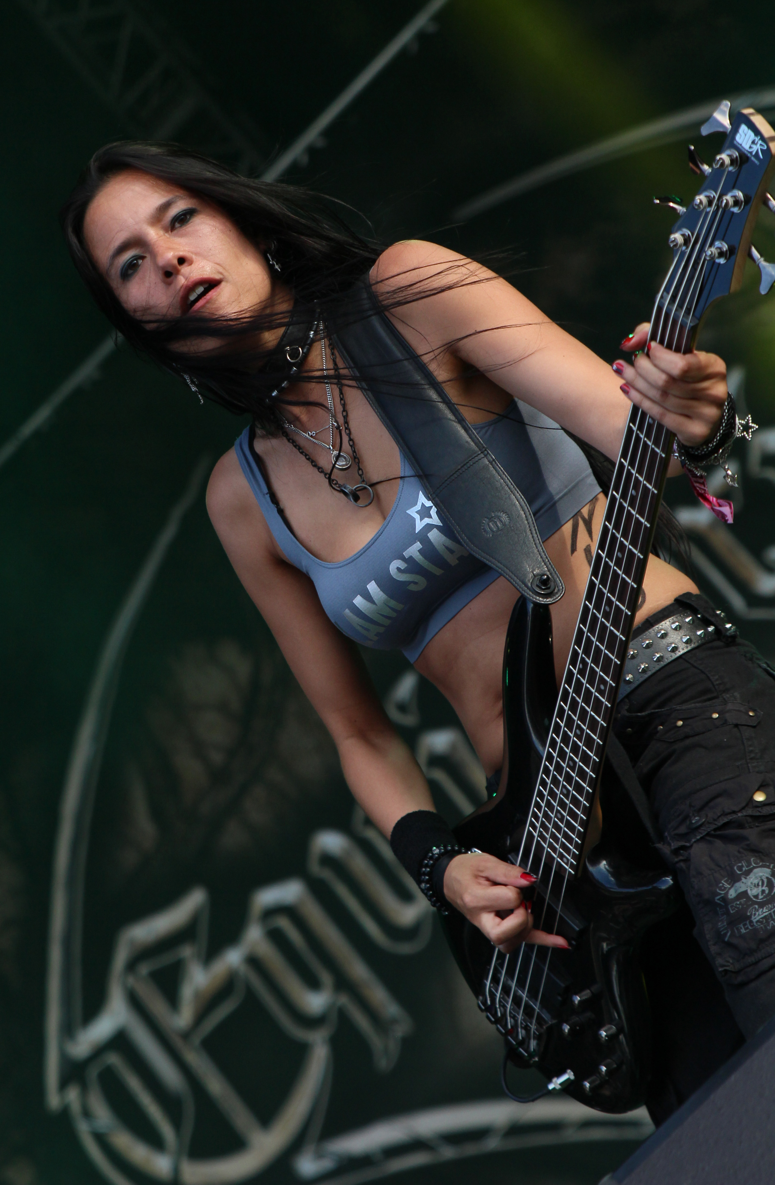 The German pagan metal band Equilibrium at the Rockharz Open Air 2014 in Ballenstedt/Germany